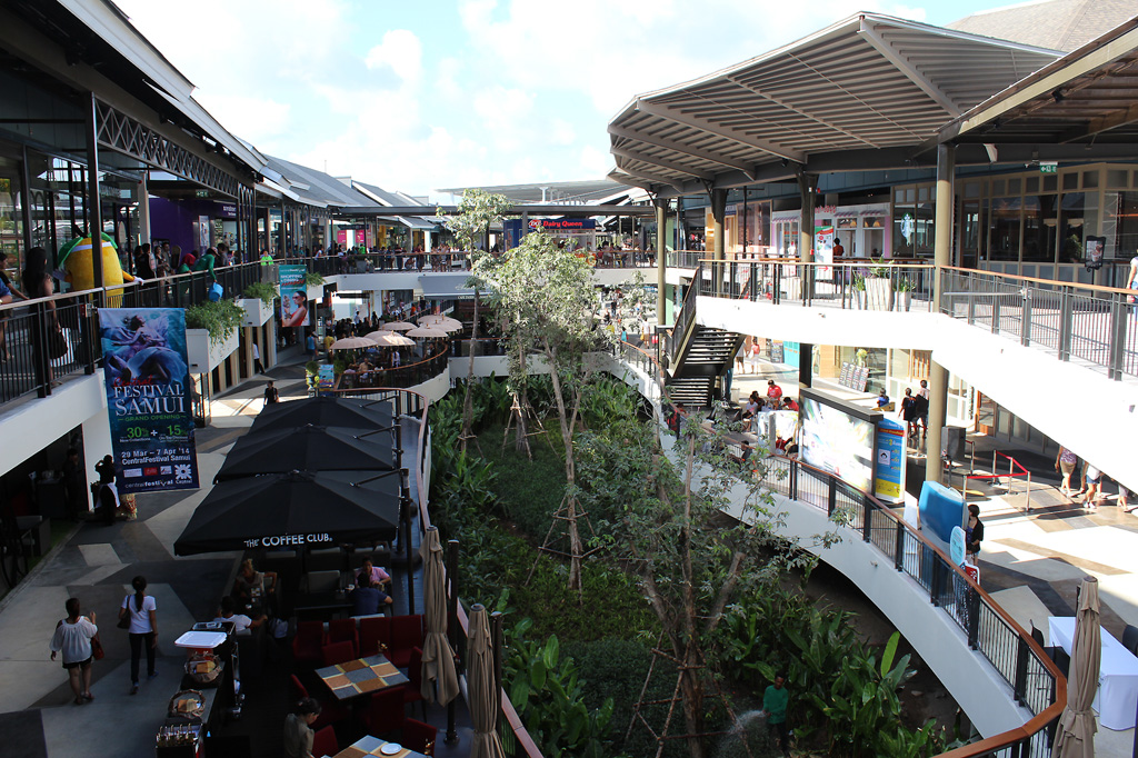 Central Festival shopping center at Chaweng, Koh Samui, Thailand